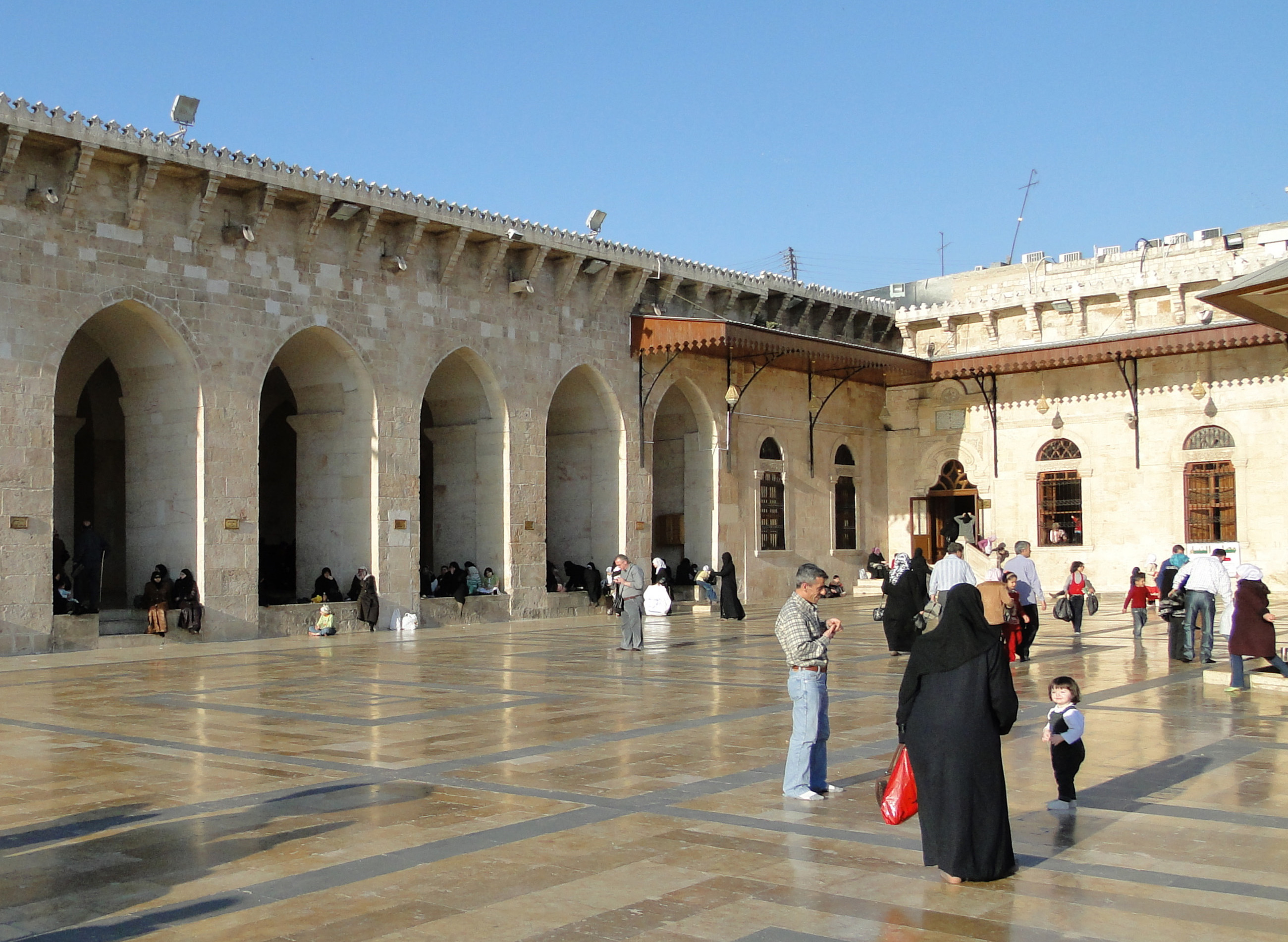 Courtyard of the Great Mosque of Aleppo, Syria